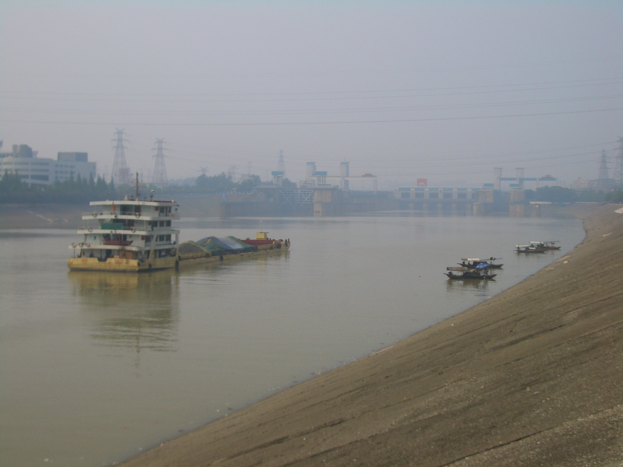 Changjiang's shipping channel below the Gezhouba Dam in Yichang